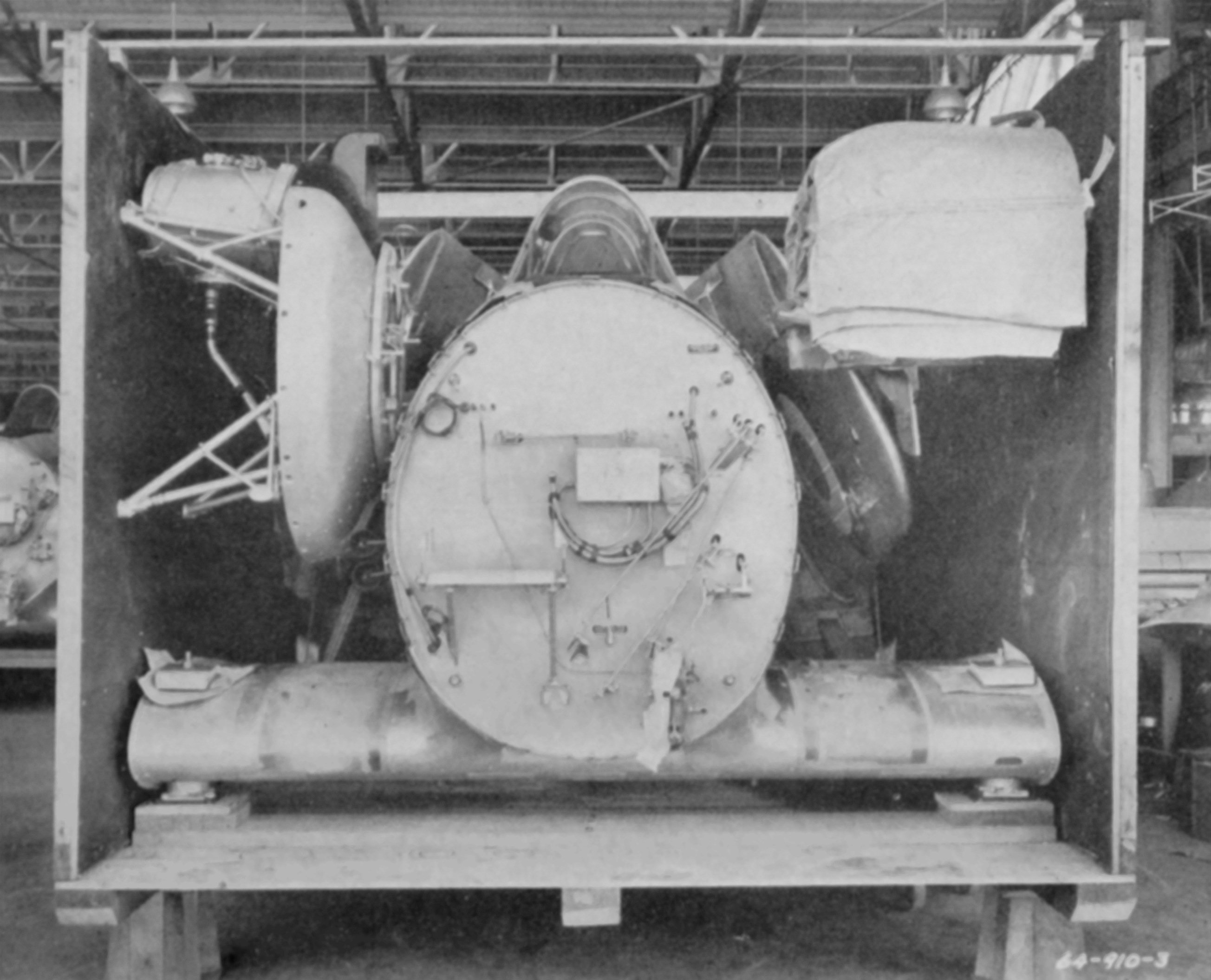 North American NAA-64 in shipping crate for delivery to France (note roundel on wing)